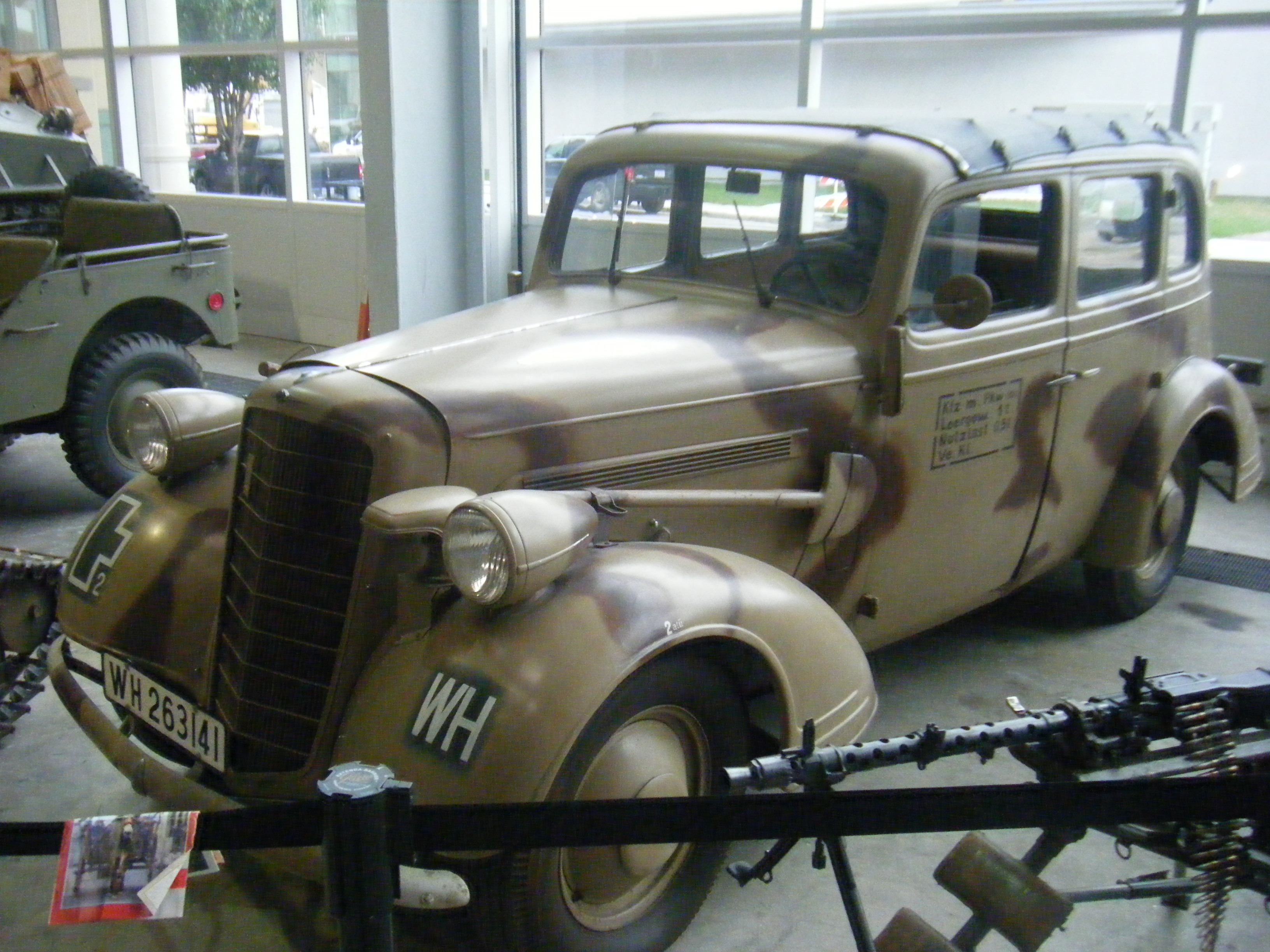 Seems to be Opel 2 Liter